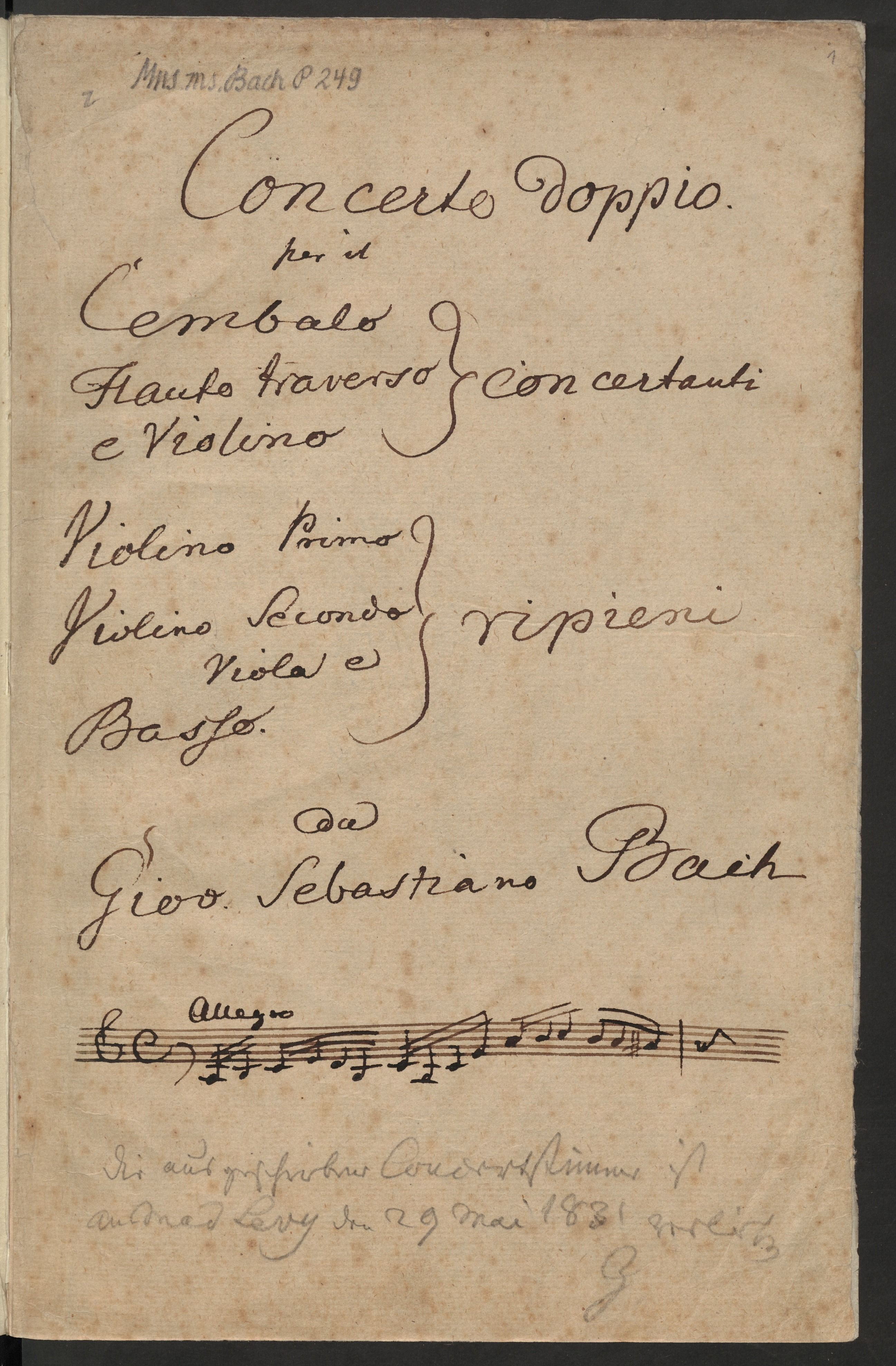 Title page of manuscript of Concerto for obbligato harpsichord, flute and violin, BWV 1044, by J.S. Bach. The manuscript was copied by Bach's pupil J.F. Agricola. The title page was written by C.F. Zelter, director of the Sing-Akademie in Berlin, who noted in pencil that the harpscihord part had been lent to Sara Levy on 29 May 1831.